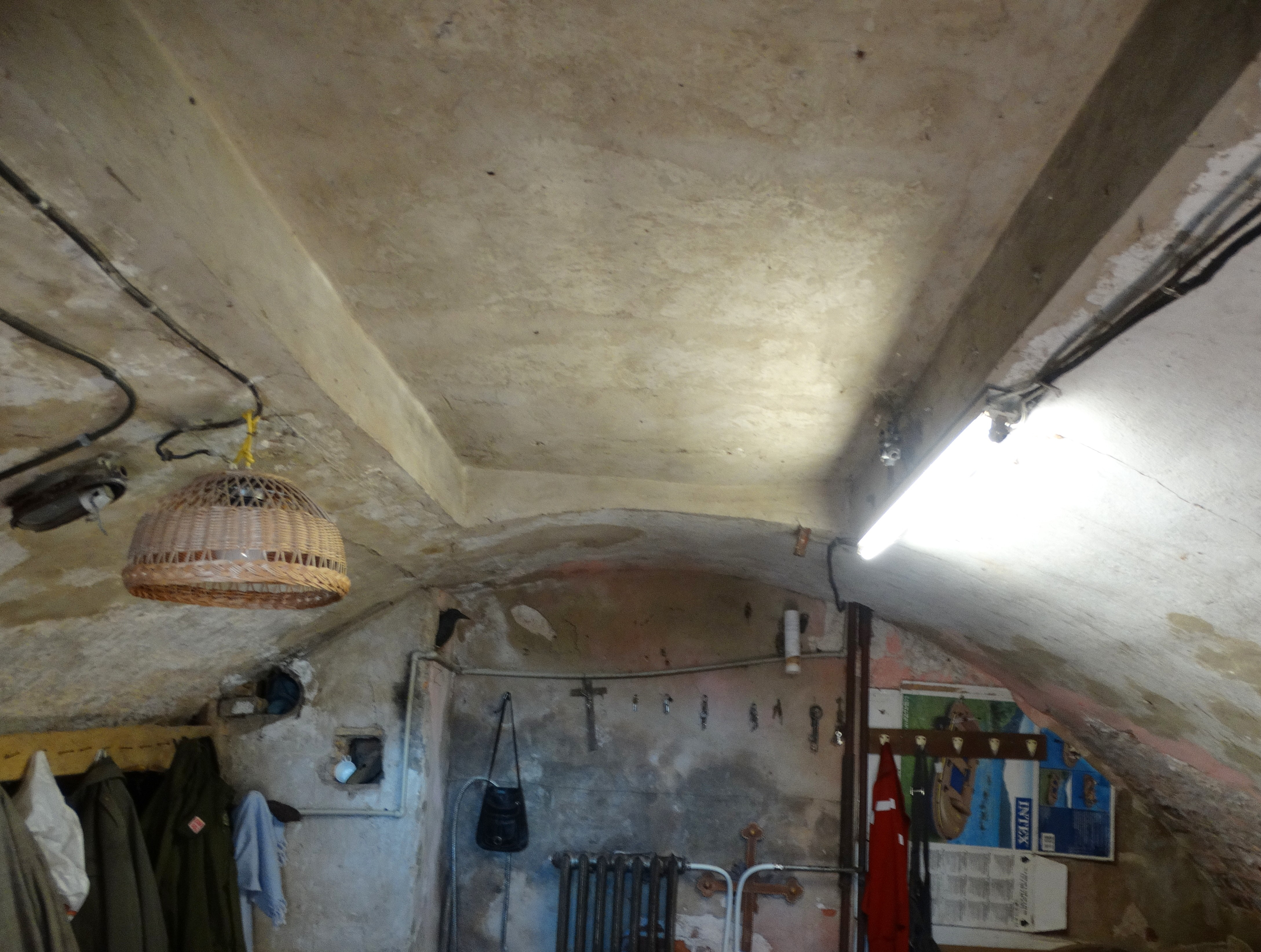 Churchyard chapel, basement, Gargždai, Lithuania